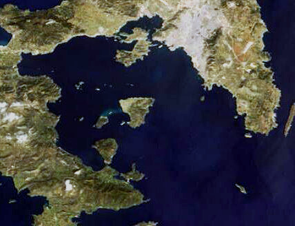 Satellite picture of Saronic Gulf, Greece.